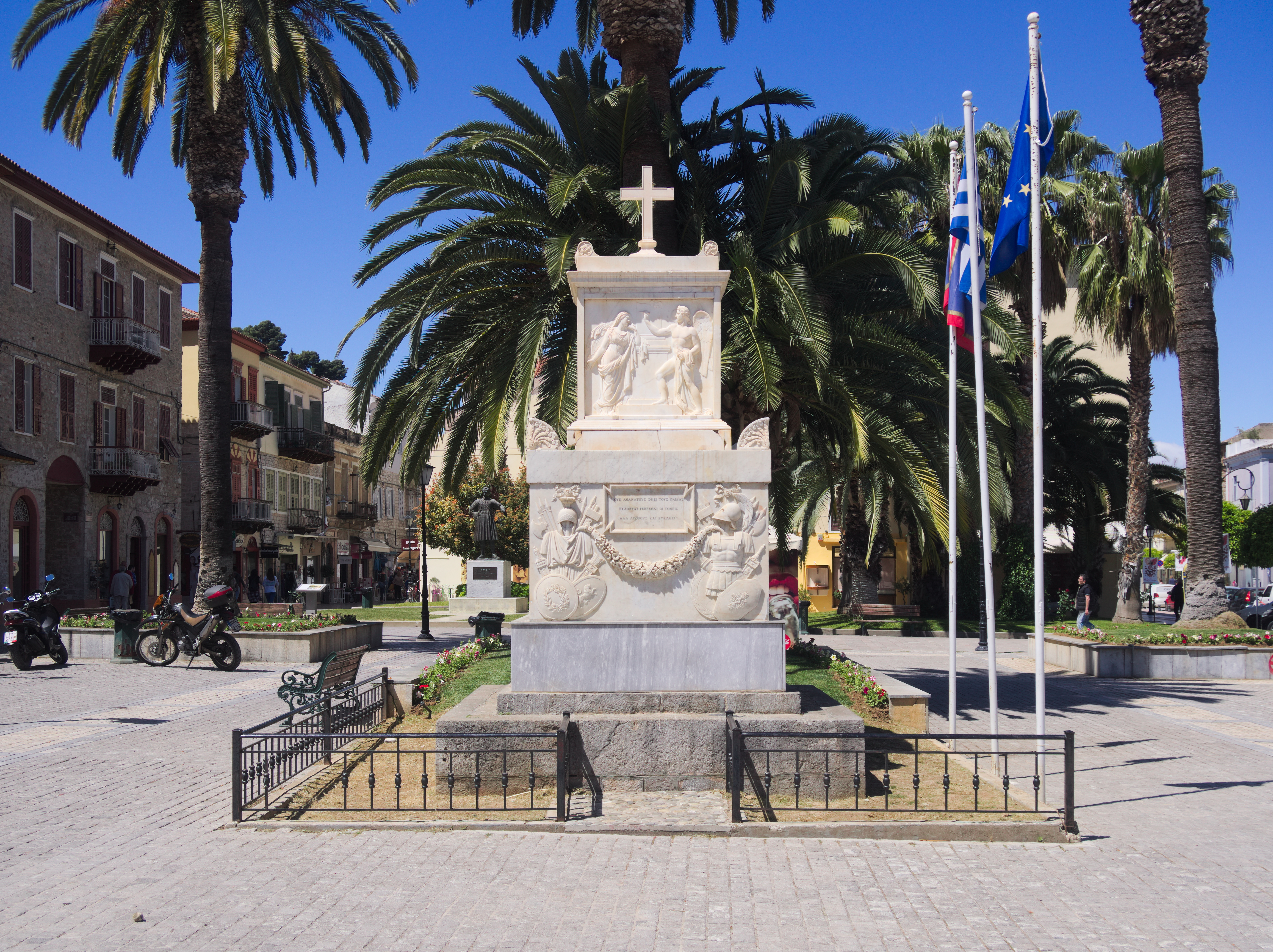 The funerary monument of Dimitrios Ypsilantis, who died in Nafplion in 1832. His remains were re-buried in this monument in 1843.